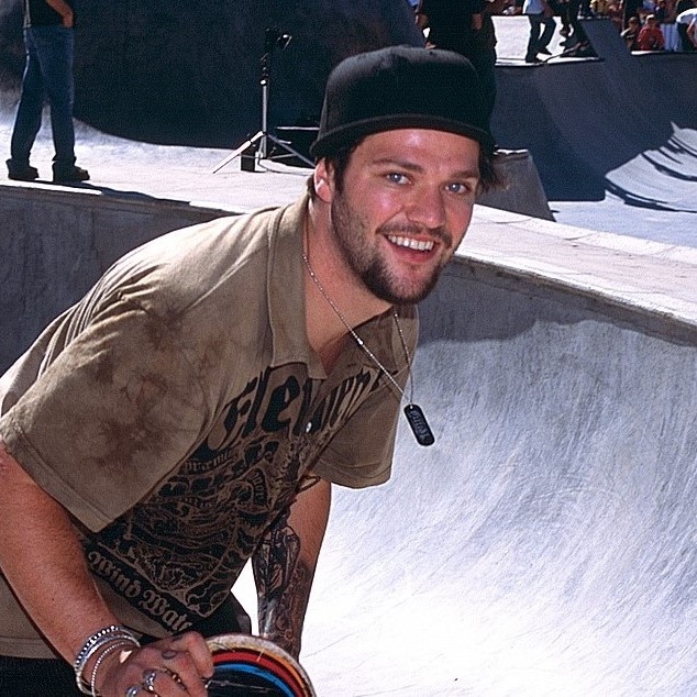 A cropped version of File:Bam Margera.jpg